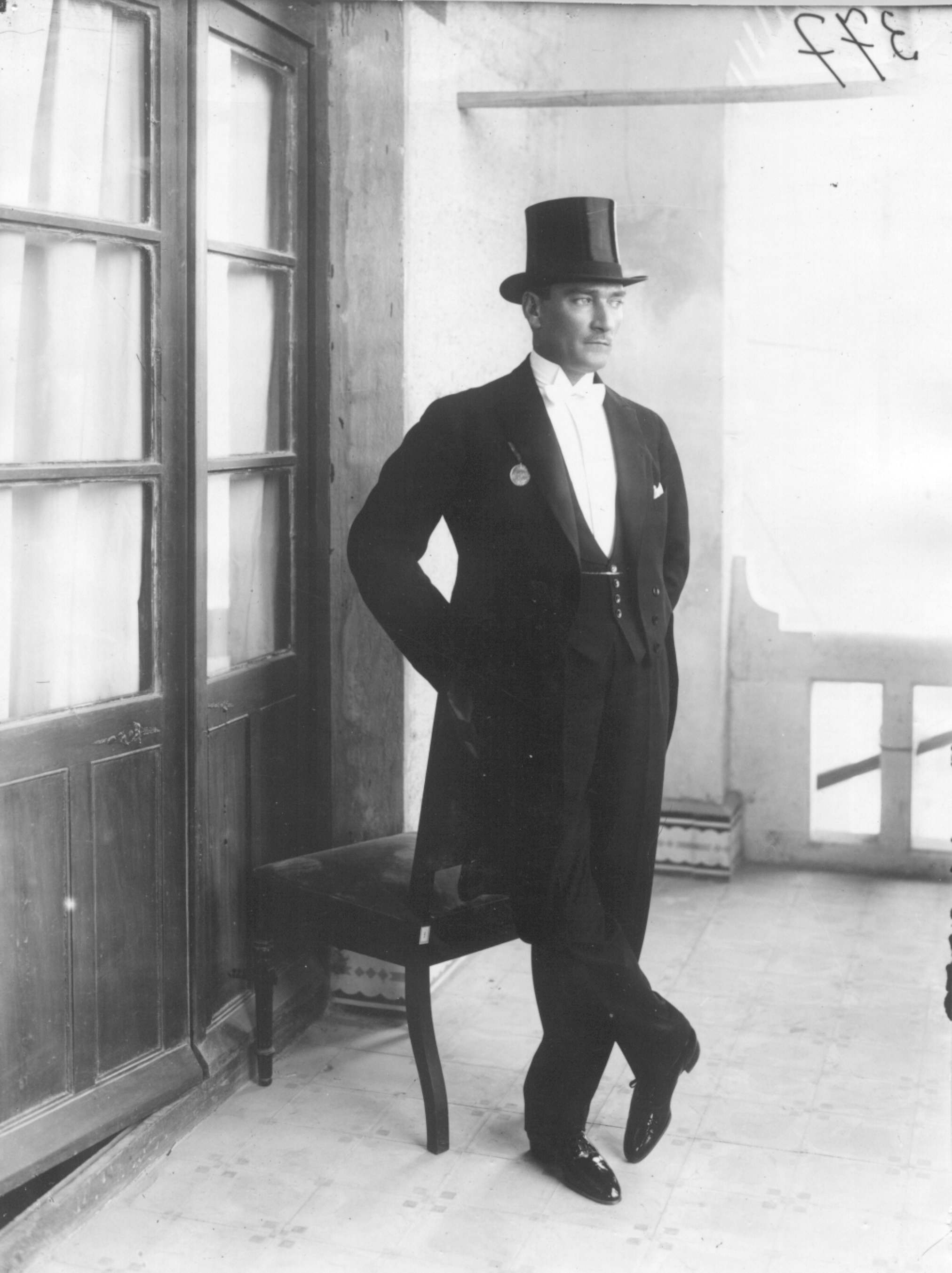 The first President of the Republic of Turkey Mustafa Kemal Atatürk in a top hat and white tie.